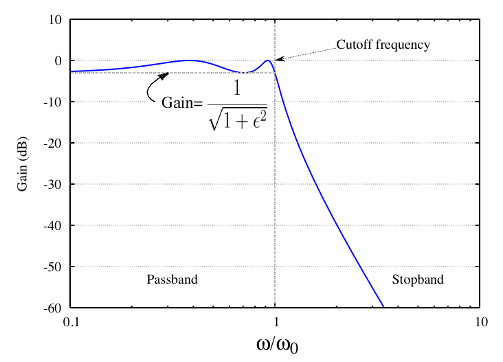 The frequency response of a Chebyshev pass- through type I fourth-order filter.